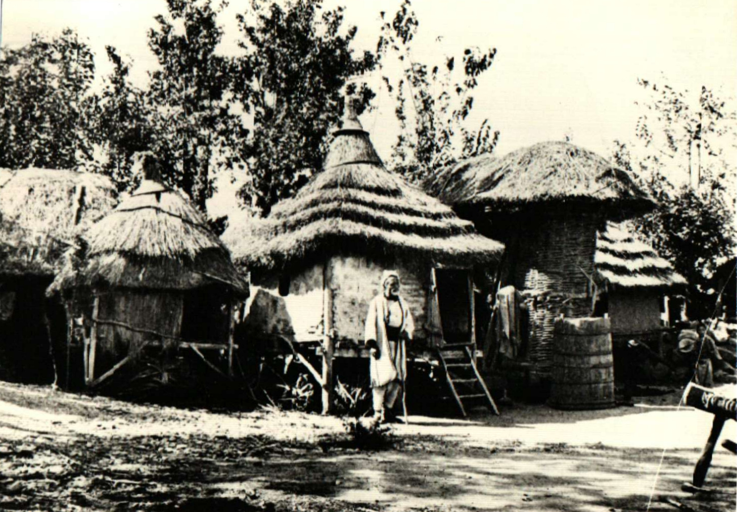 Villages in Macedonia